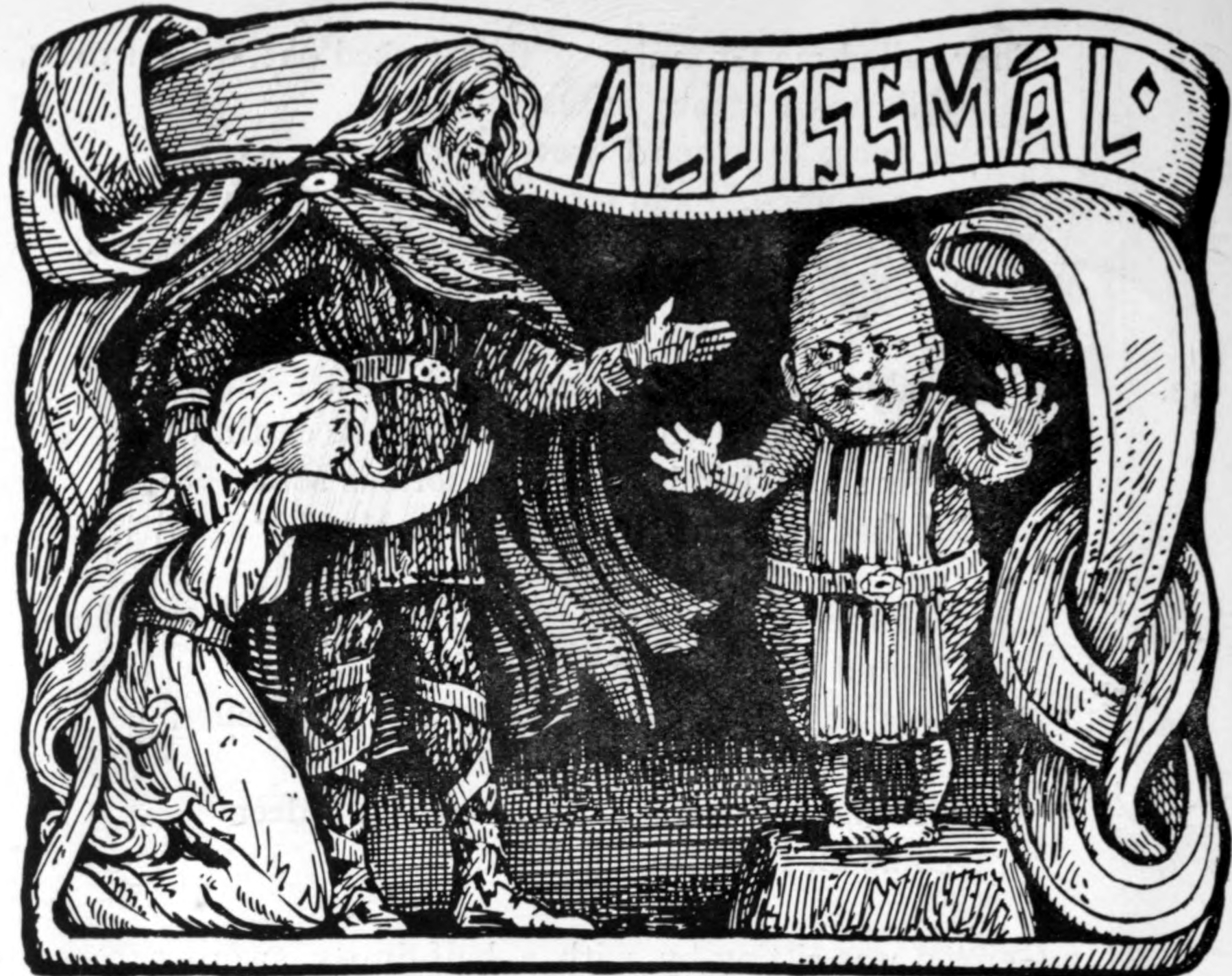 The god Thor (Þórr) holds his daughter Þrúðr while conversing with the dwarf Alvíss. The list of illustrations in the front matter of the book gives this one the title All-wise answers Thor.